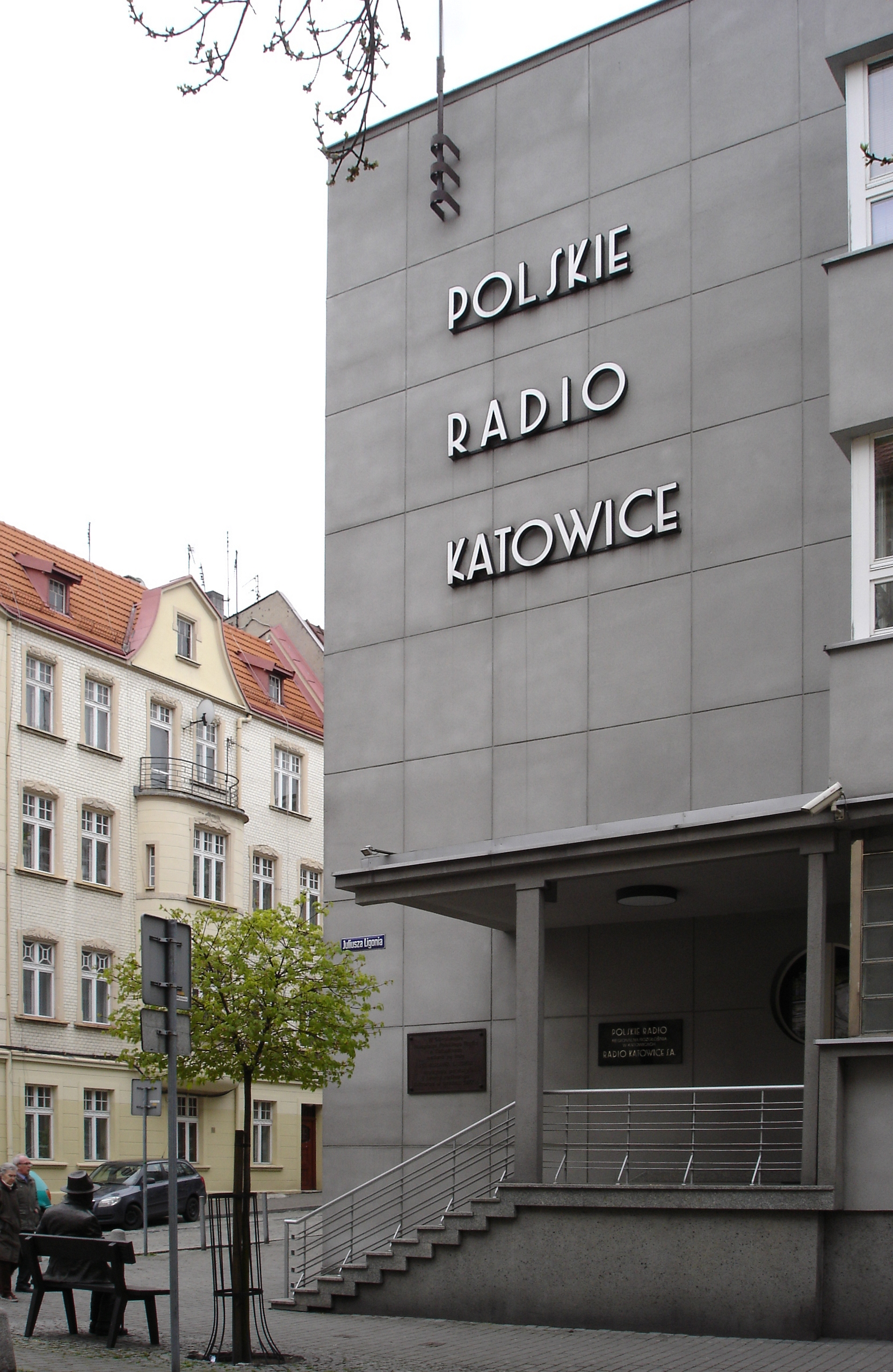 The headquaters of Polskie Radio, Regionalna Rozgłośnia w Katowicach, Radio Katowice SA, Ligonia 29 street, Katowice, Poland.